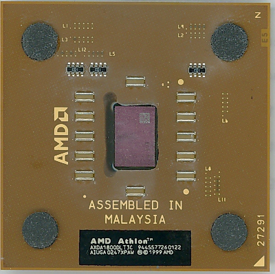 An AMD Athlon XP 1800+ Thoroughbred processor.